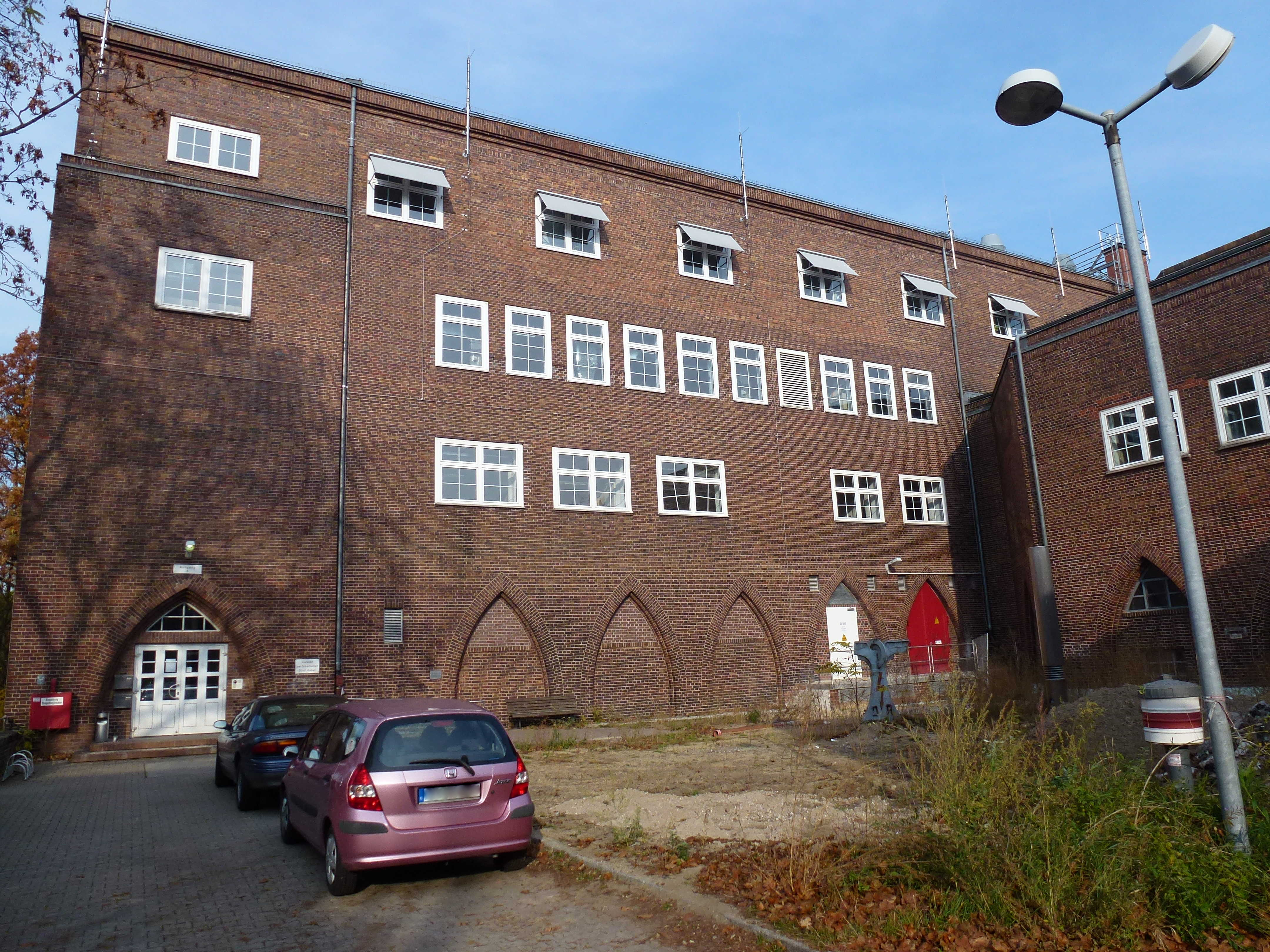 Berlin-Halensee Schaltwerk Halenseestraße